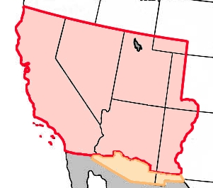 Lands ceded to the USA in the wake of the Mexican-American War (red) and the Gadsden purchase (yellow)